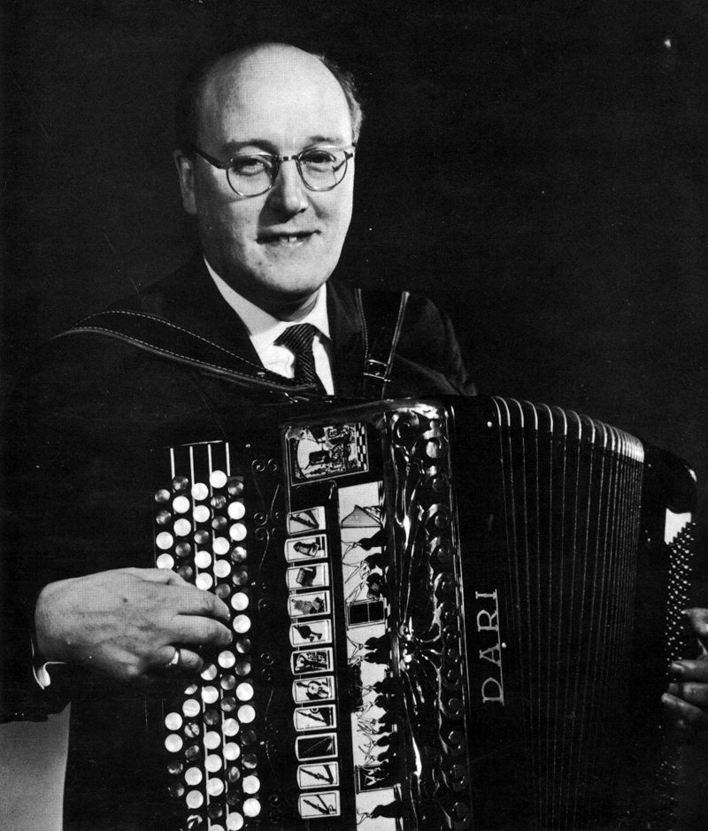 Swedish accordionist Andrew Walter